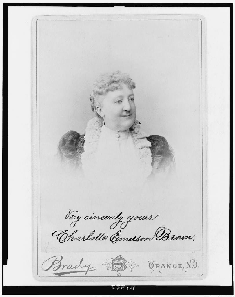 American women's club leader Charlotte Emerson Brown seen in a cabinet photograph dated to between 1870 and 1890, taken by H.J. Brady. The print is currently located in the Library of Congress in the May Wright Sewall collection.